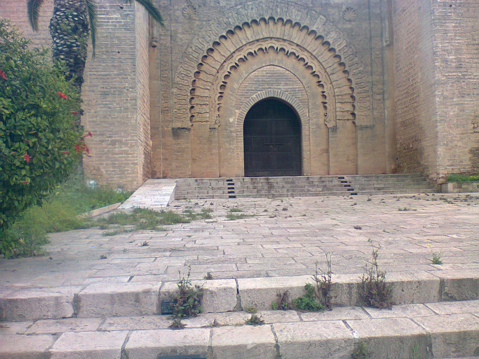 One of the numerous gates in Rabat, the historical capital of the honorable "Mouwahideen" الموحدين state that was established in Morocco. It's near the "Rwah" gate باب الرواح.